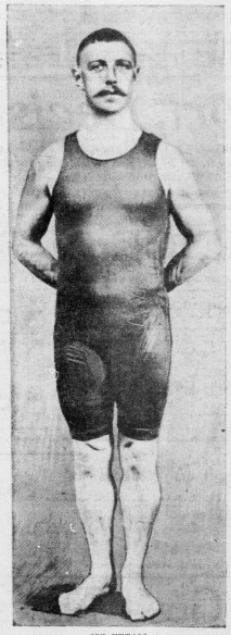 Photograph of English swimmer Joseph (Joey) Nuttall, which appeared in July 31, 1904 edition of The Washington Times